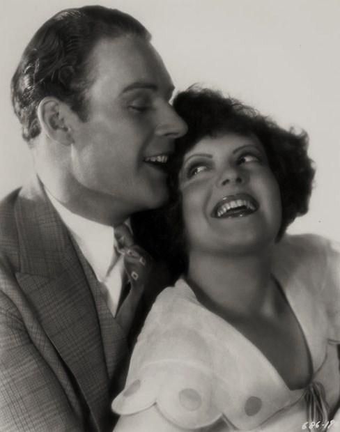 Lane Chandler and Clara Bow in the American film Red Hair (1928) - publicity still